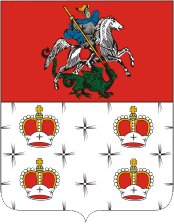 Dmitrov (Moscow oblast), coat of arms